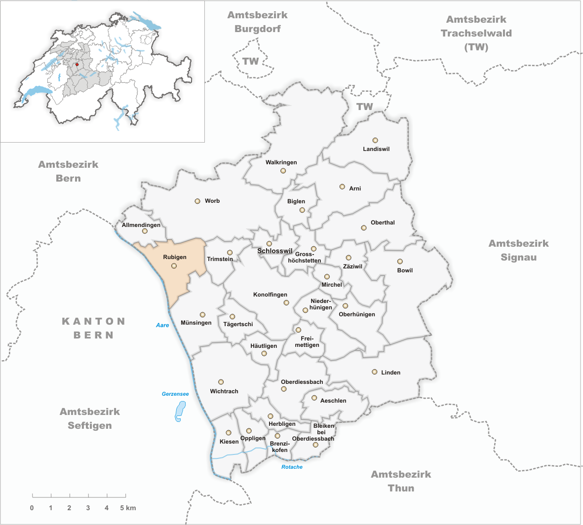 Municipality Rubigen